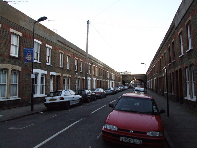 Beck Road, Hackney Home from 1975 until 1981 of music group and art terrorists Throbbing Gristle.